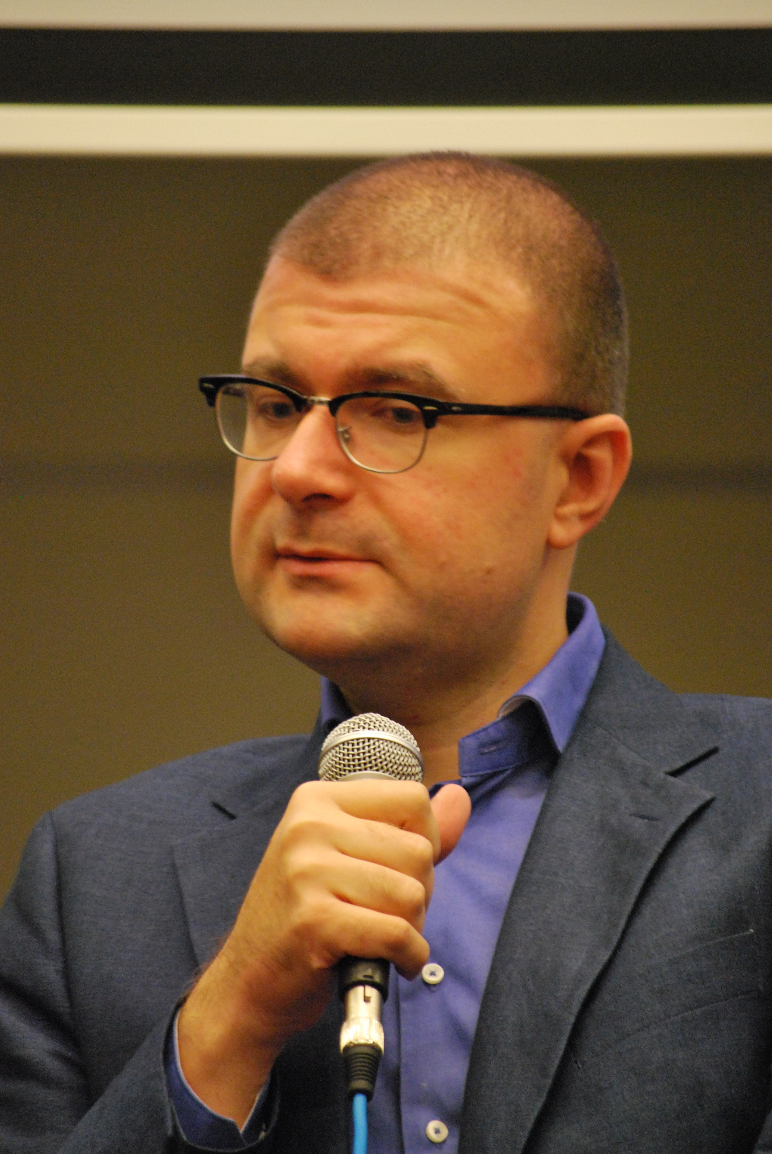 Jacek Dukaj, Festival of Comics in Łódź 2012